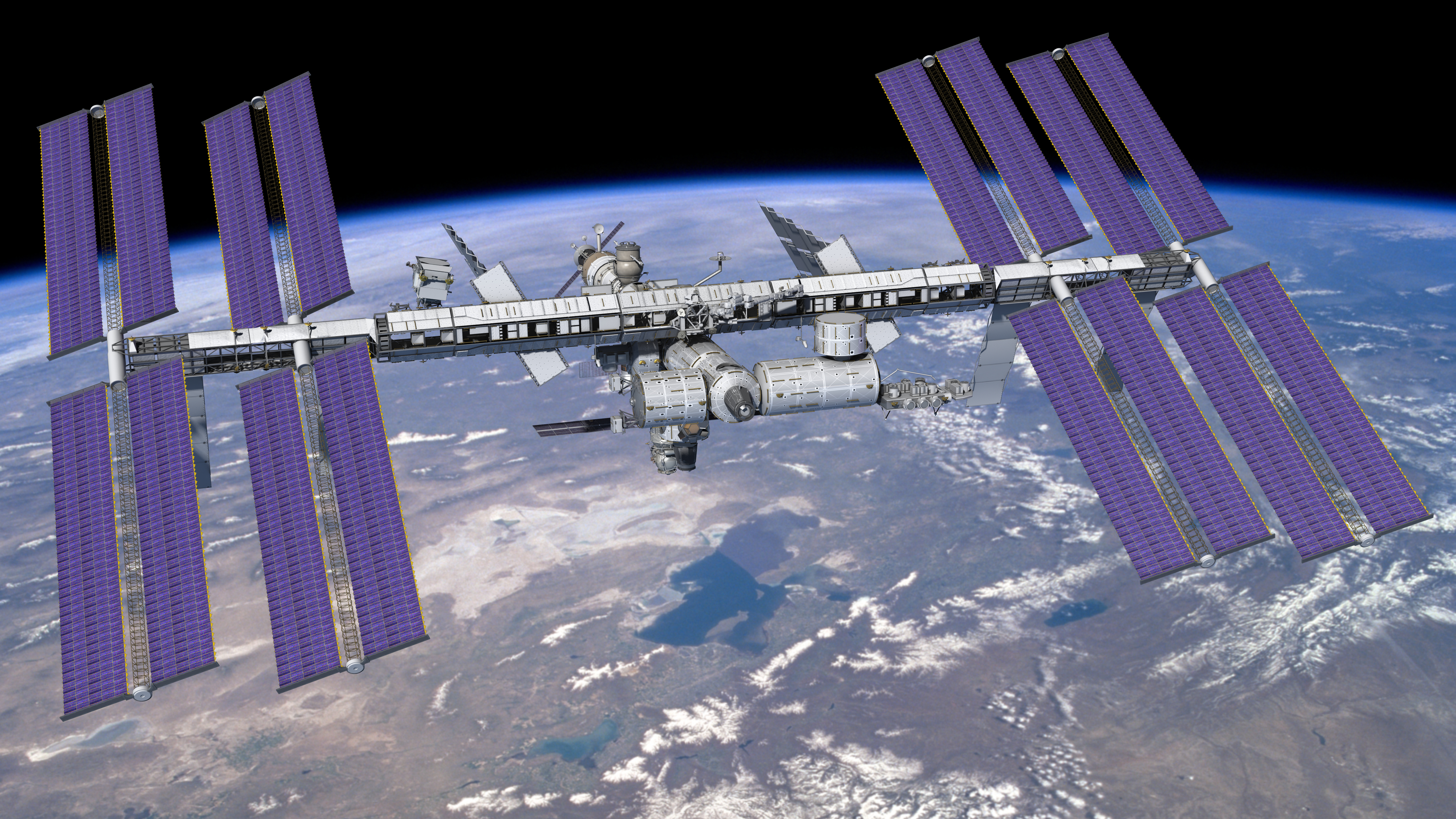 Overview with a computer generated image showing AMS-02 mounted to the ISS S3 truss.